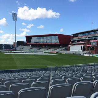 A picture of OLd Trafford Cricket Ground